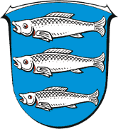 Former coat of arms of Heringen